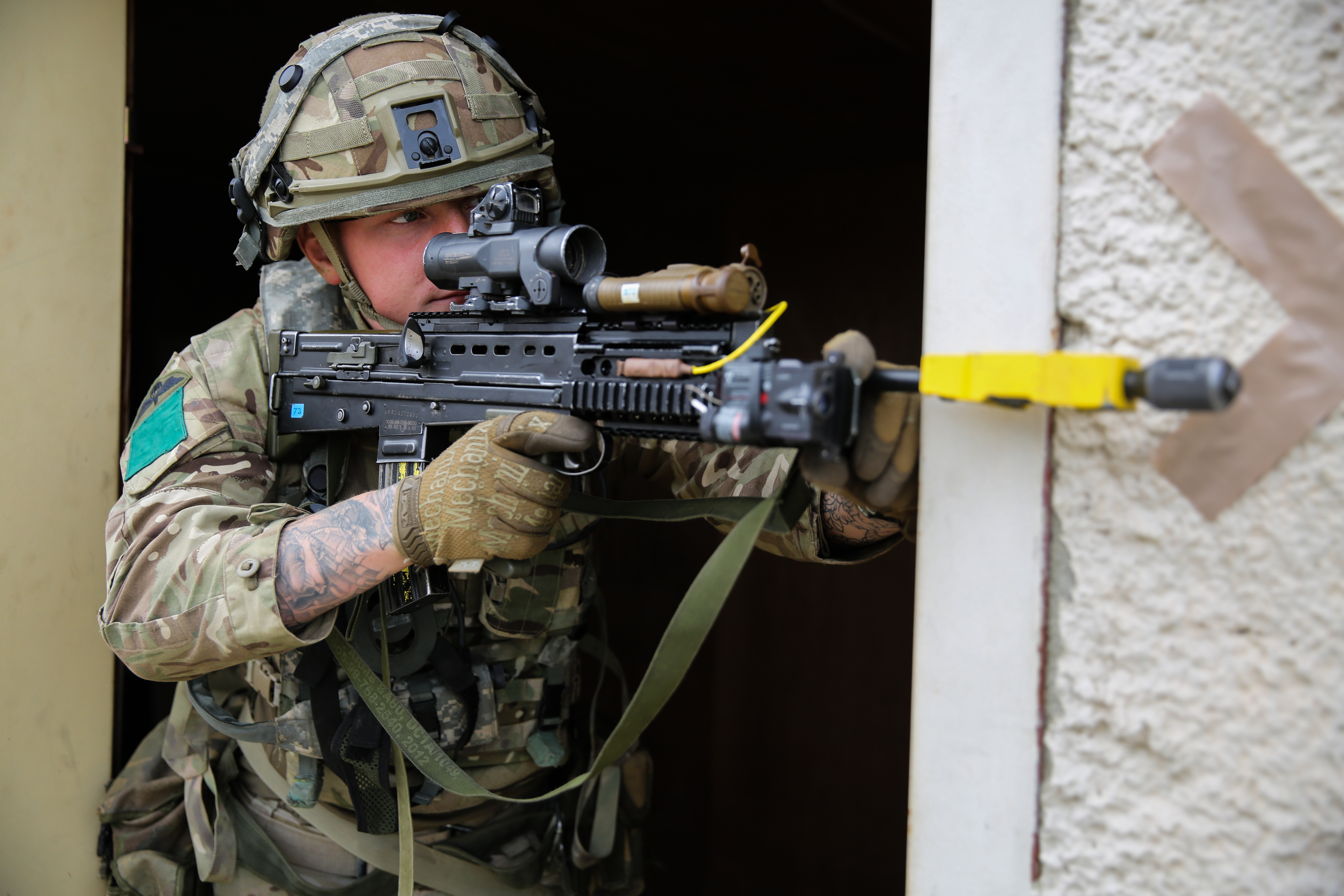 British Army Pvt. Jack Wheeler of Bravo Company, 3rd Battalion, Parachute regiment provides security while conducting a defensive operation during Swift Response 16 training exercise at the Hohenfels Training Area, a part of the Joint Multinational Readiness Center, in Hohenfels, Germany, Jun. 19, 2016. Exercise Swift Response is one of the premier military crisis response training events for multi-national airborne forces in the world. The exercise is designed to enhance the readiness of the combat core of the U.S. Global Response Force – currently the 82nd Airborne Division’s 1st Brigade Combat Team – to conduct rapid-response, joint-forcible entry and follow-on operations alongside Allied high-readiness forces in Europe. Swift Response 16 includes more than 5,000 Soldiers and Airmen from Belgium, France, Germany, Great Britain, Italy, the Netherlands, Poland, Portugal, Spain and the United States and takes place in Poland and Germany, May 27-June 26, 2016. (U.S. Army photo by Sgt. Seth Plagenza/Released) Unit: VIPER COMBAT CAMERA USAREUR